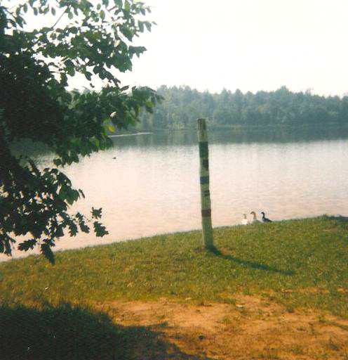 Totem pole and lakeside, Woodland Trails Scout Reservation, Ohio